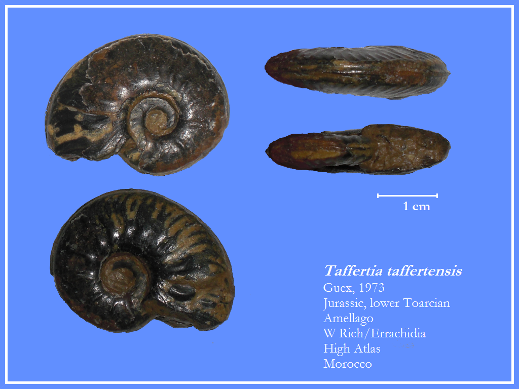 Taffertia taffertensis from Morocco. From personal collection of author.